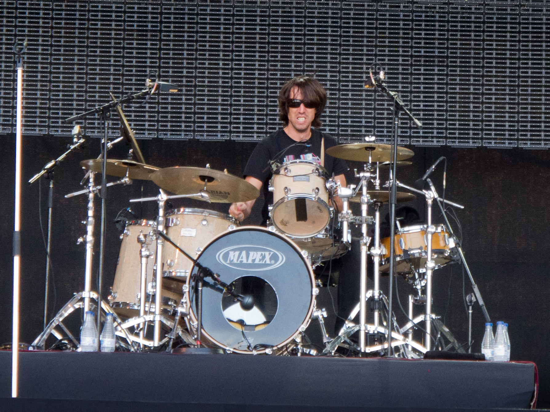 La oreja de Van Gogh in Rock in Rio Madrid 2012.